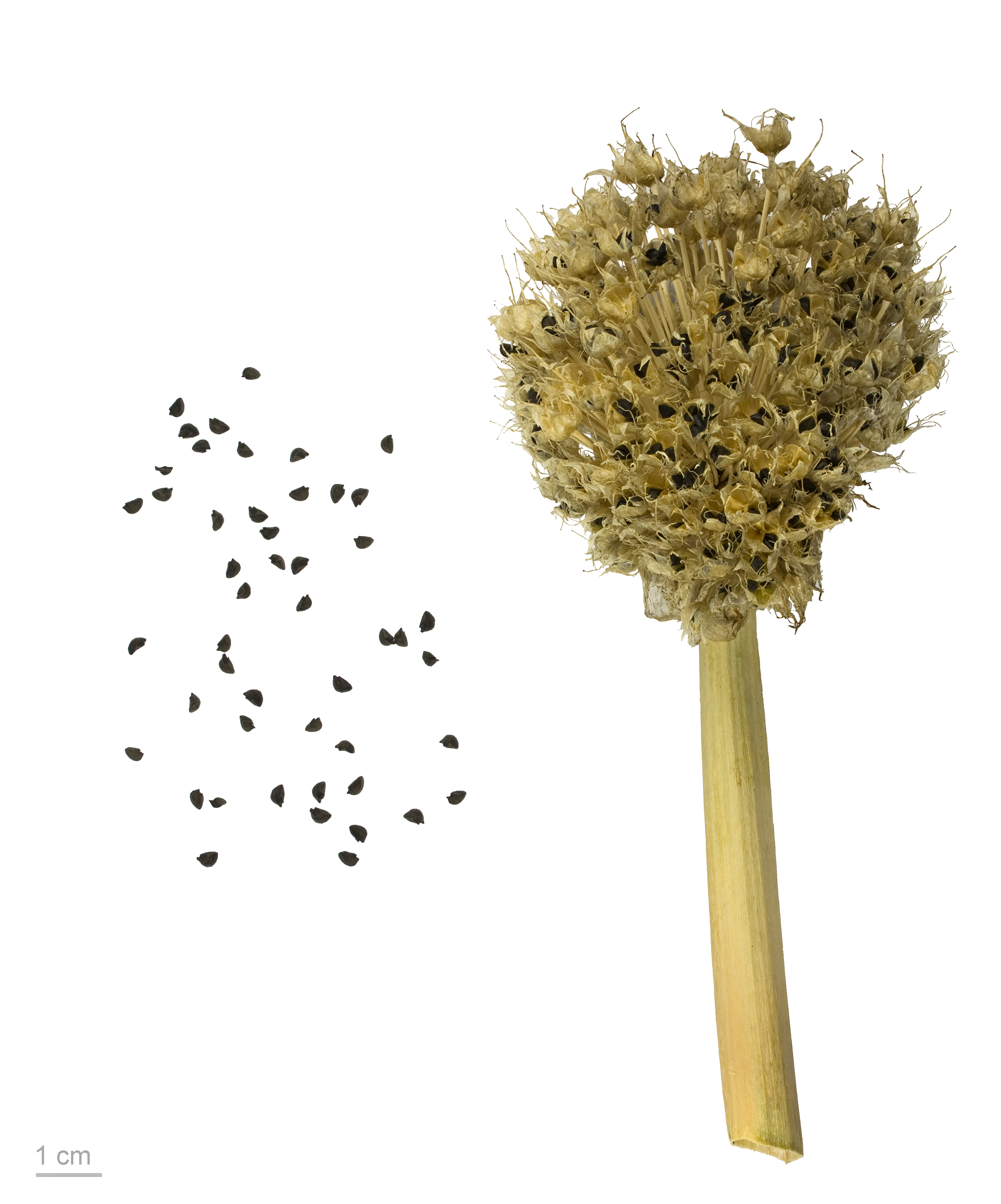 Welsh onion , fruits and seeds